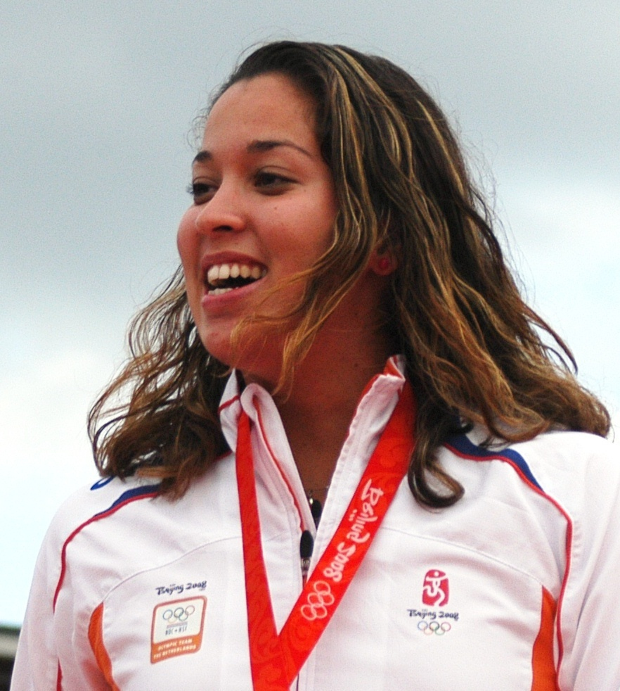 Ranomi Kromowidjojo at the Olympic welcome in the Olympic Stadium in Amsterdam, the Netherlands